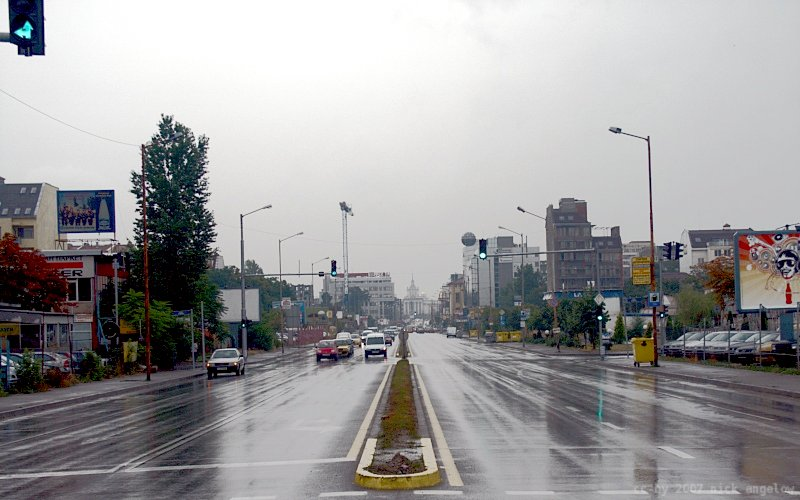 "Todor Alexandrov" Blvd. in Sofia, Bulgaria